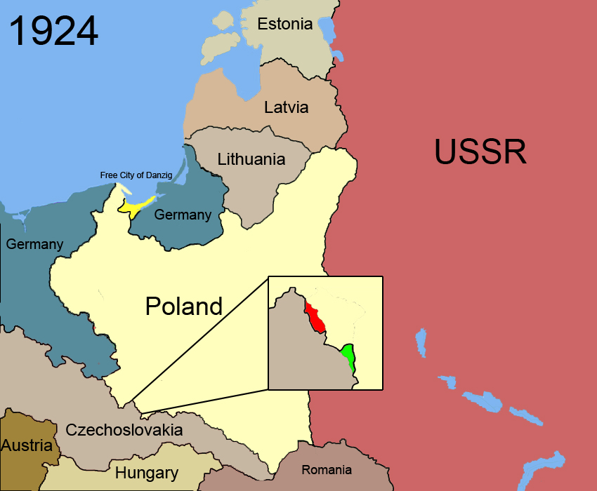 Orava on the Polish border, 1924